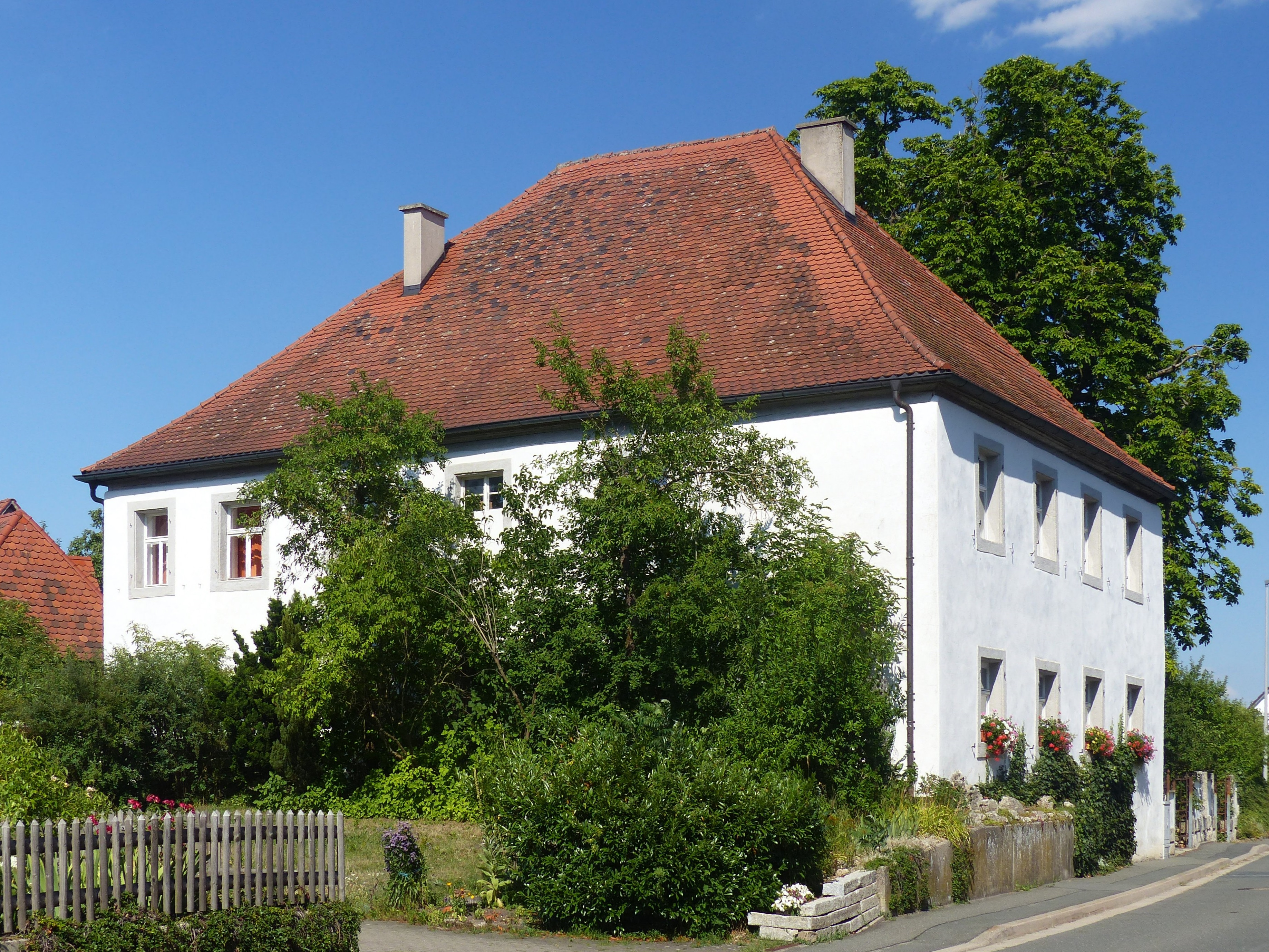 A residential house in the village Weidensees, a district of the town of Betzenstein.